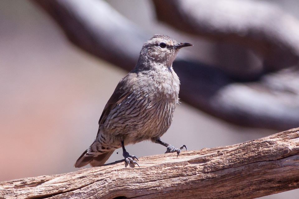 Gluepot Reserve, South Australia